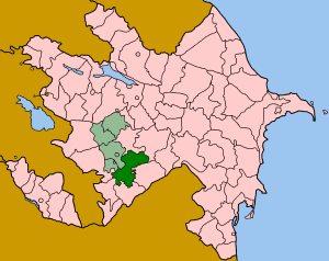 Map of Azerbaijan showing Khojavend (Xocavənd) rayon. It is completely part of Nagorno-Karabakh, where it is split into the provinces of Hadrut and Martuni.